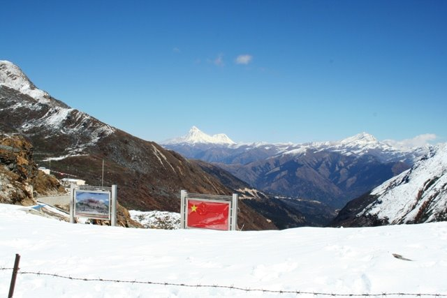 Nathu La, a mountain pass in the Himalayas on the Indo-China Border.